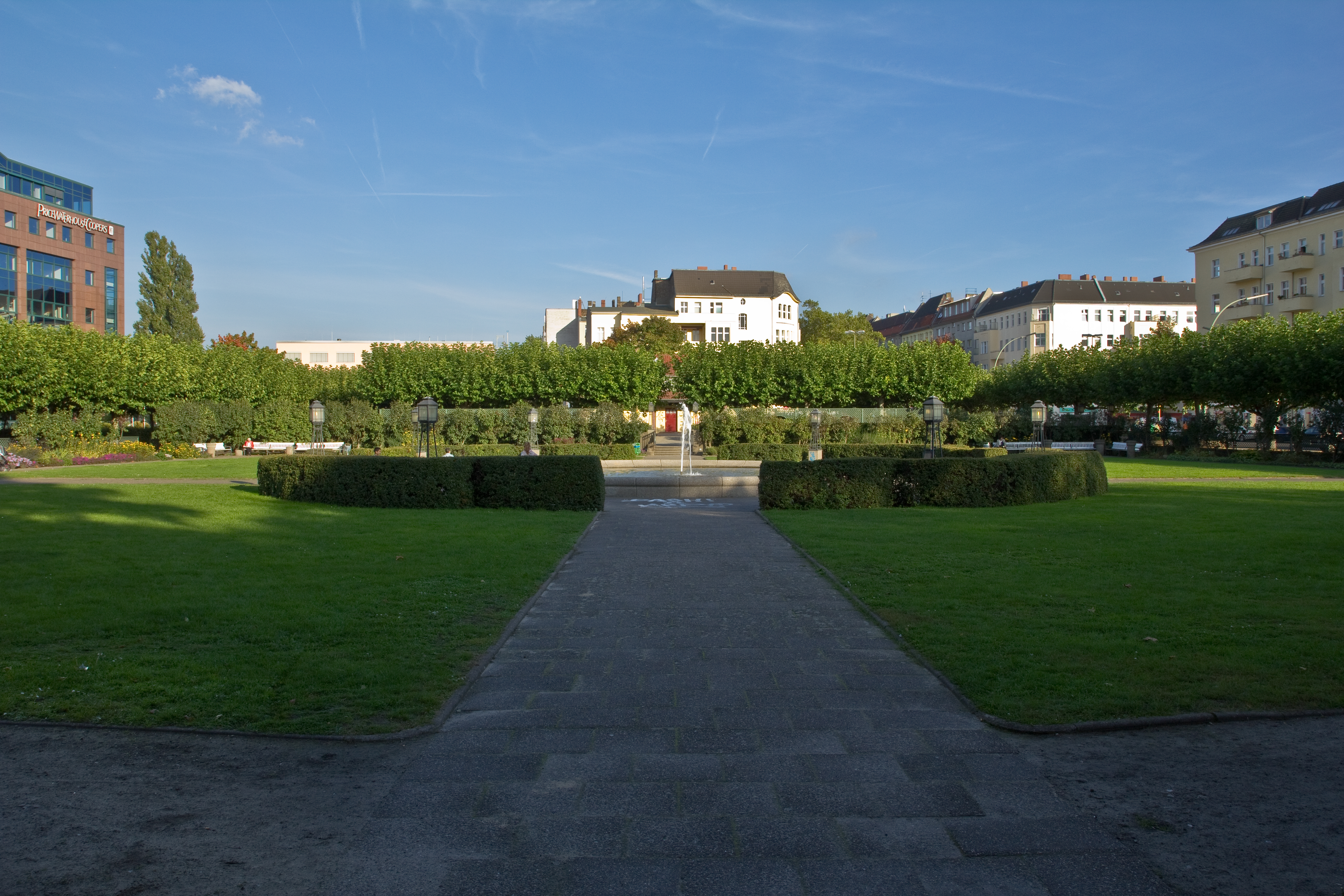 Mierendorffplatz (northern part) in Berlin Charlottenburg, 2010